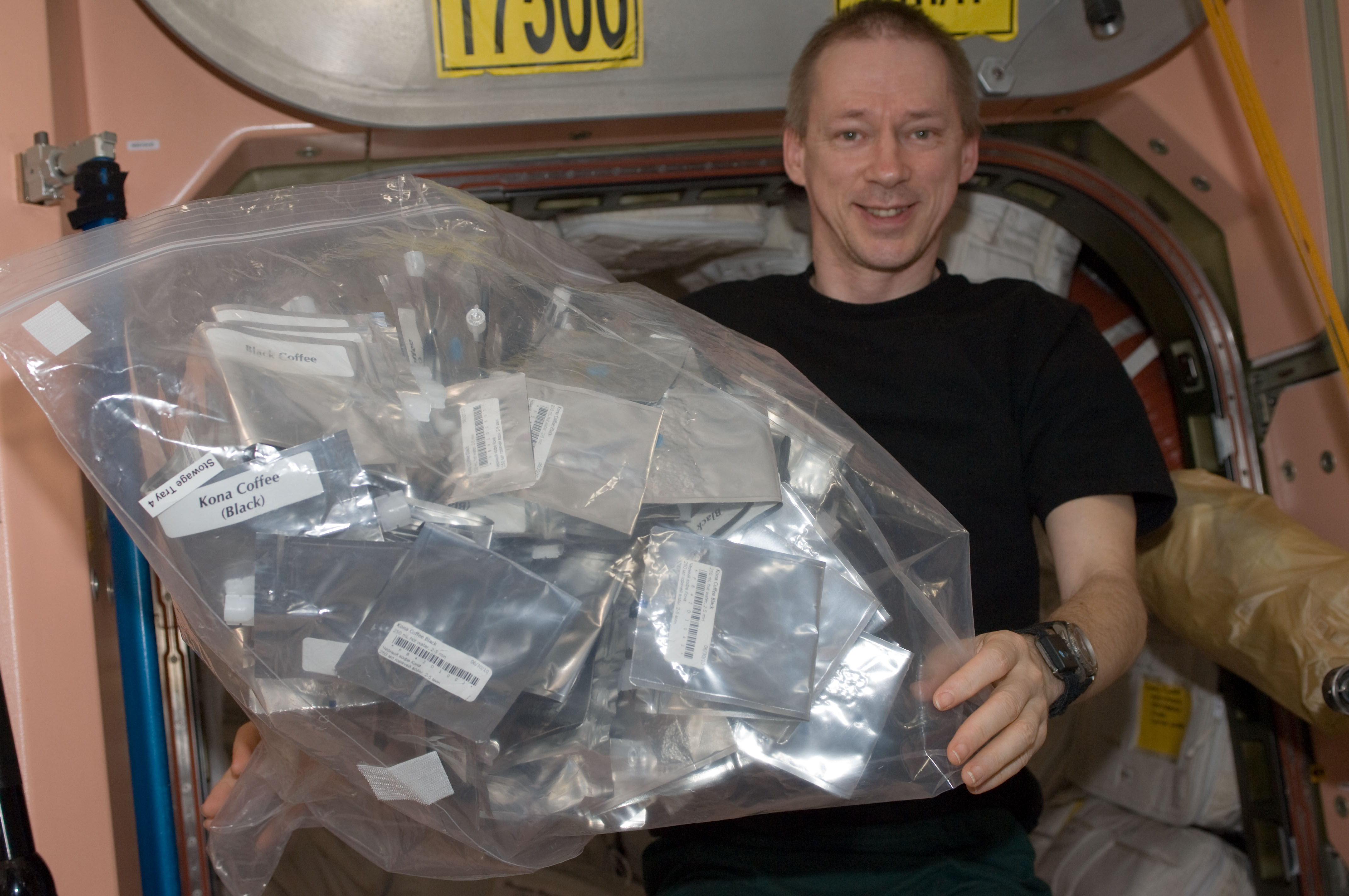 European Space Agency astronaut Frank De Winne, Expedition 21 commander, holds a stowage bag containing various beverages in the Unity node of the International Space Station.